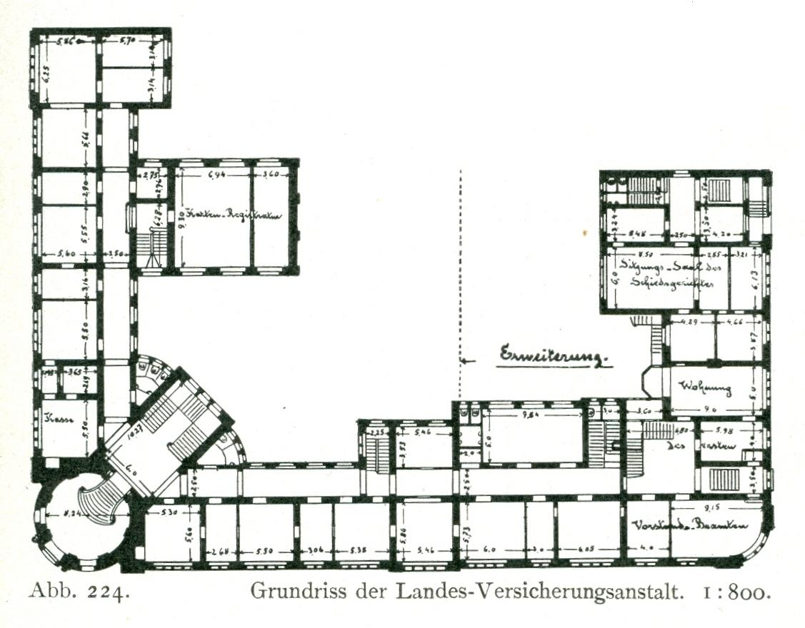 i